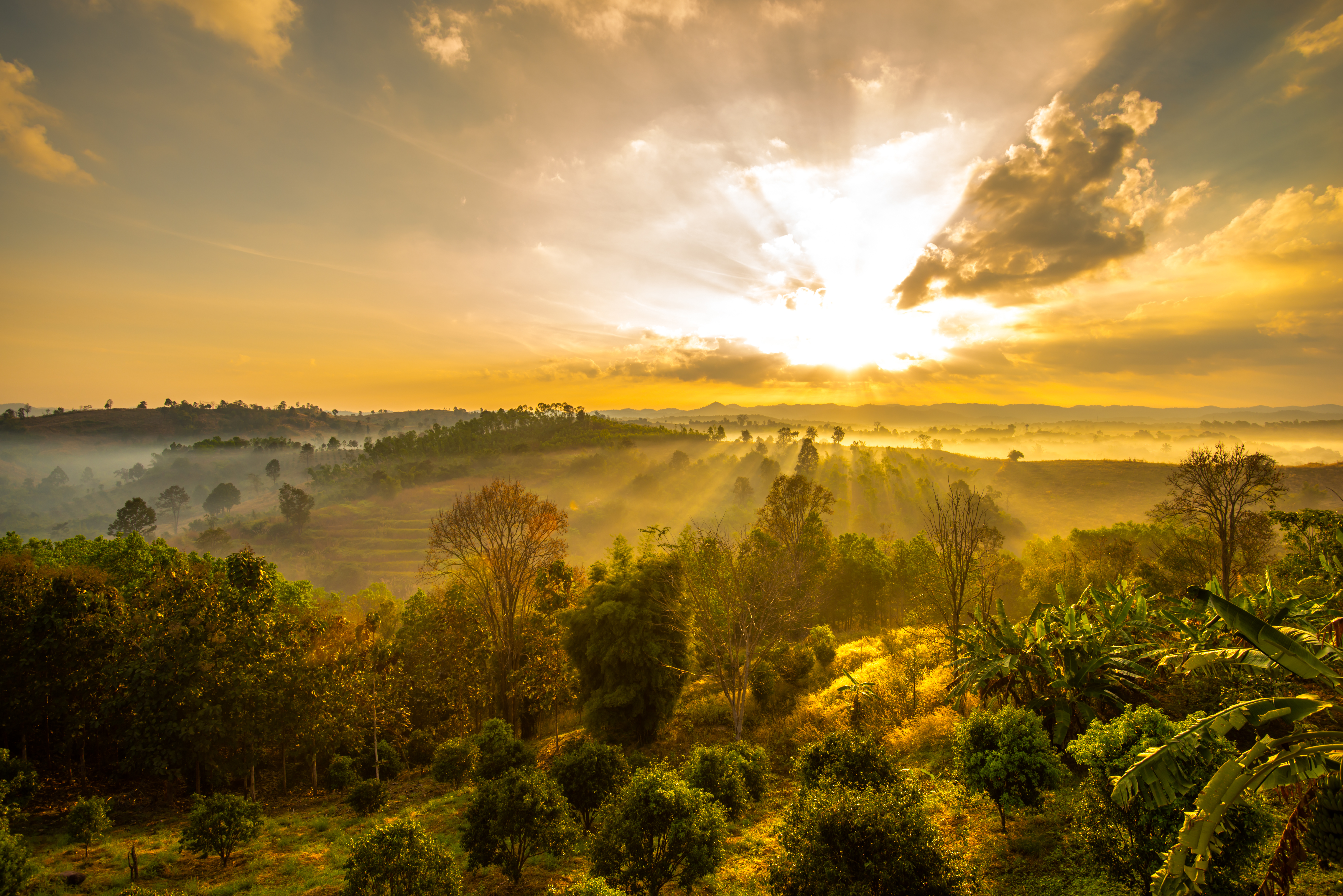 Clouds obscured the sun, causing the beam shines on forests.